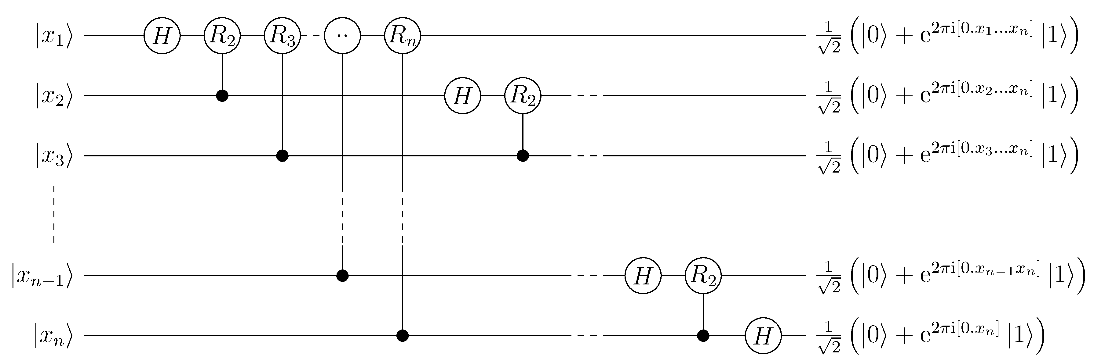 Quantum circuit for Quantum-Fourier-Transform with n Qubits